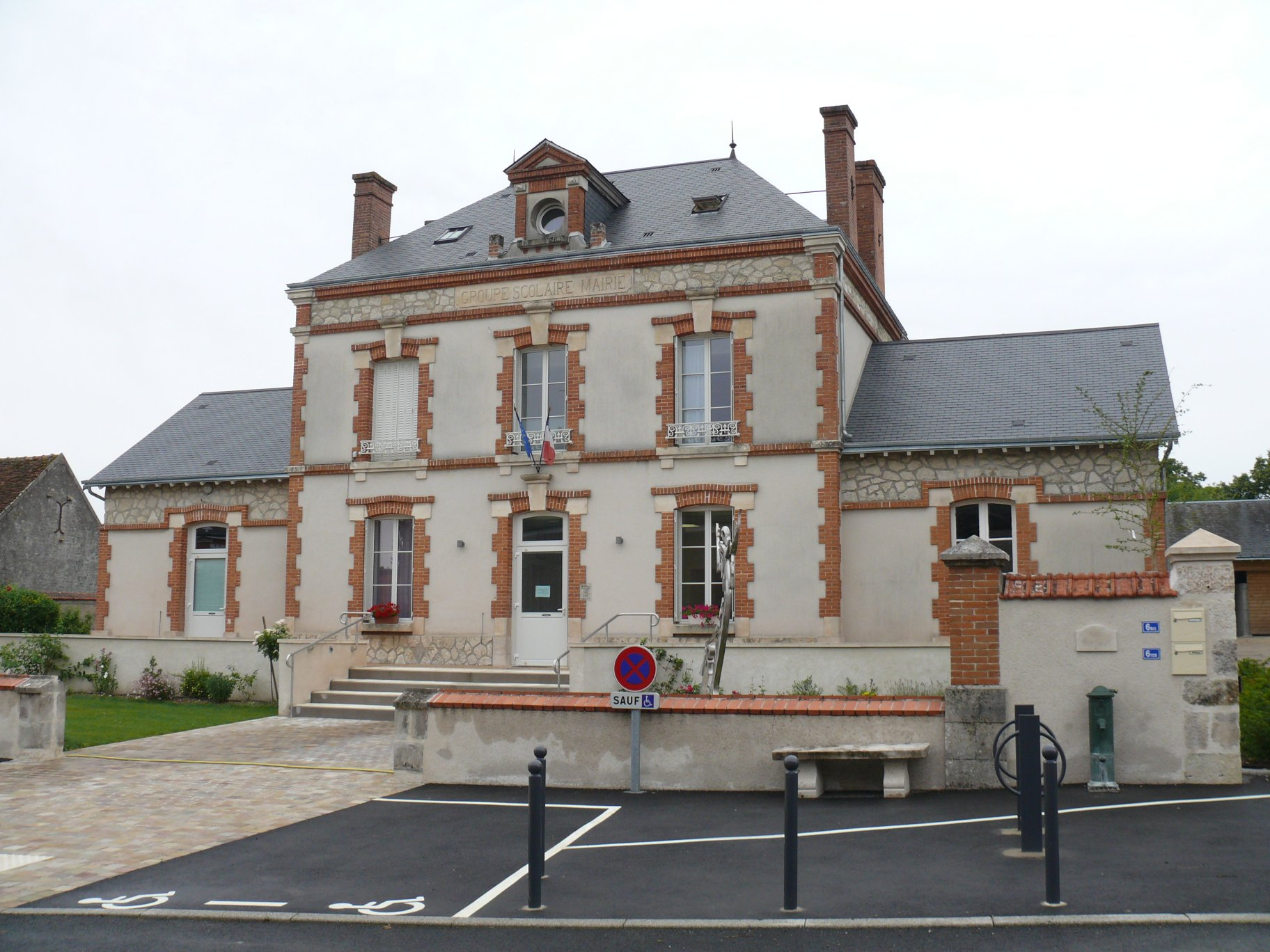 The town-hall of Courcelles (Loiret, Centre-Val de Loire, France).